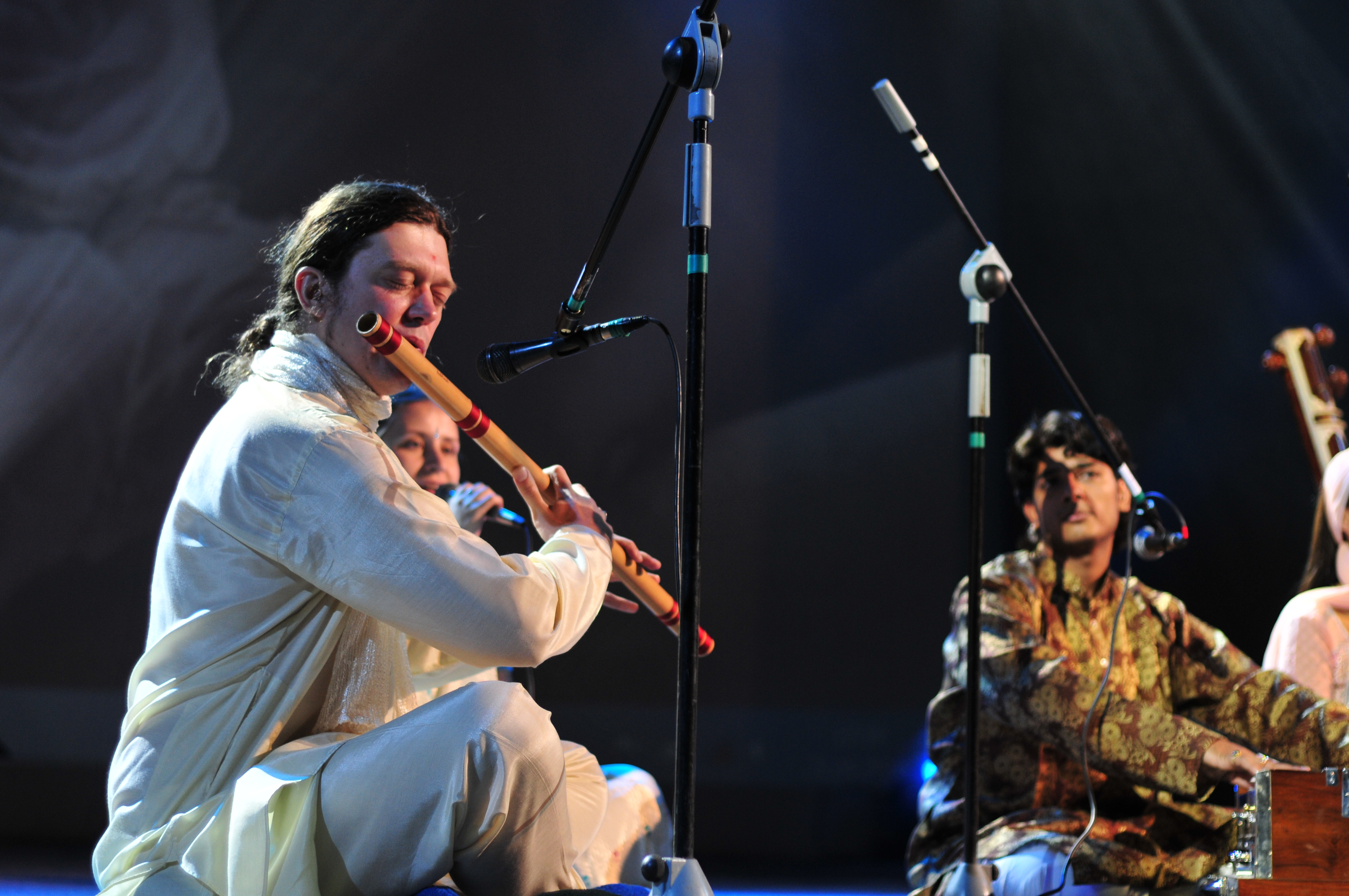 Subhash Prem Giri and Bittu Mallik on the concert in Saint Petersburg, Russia